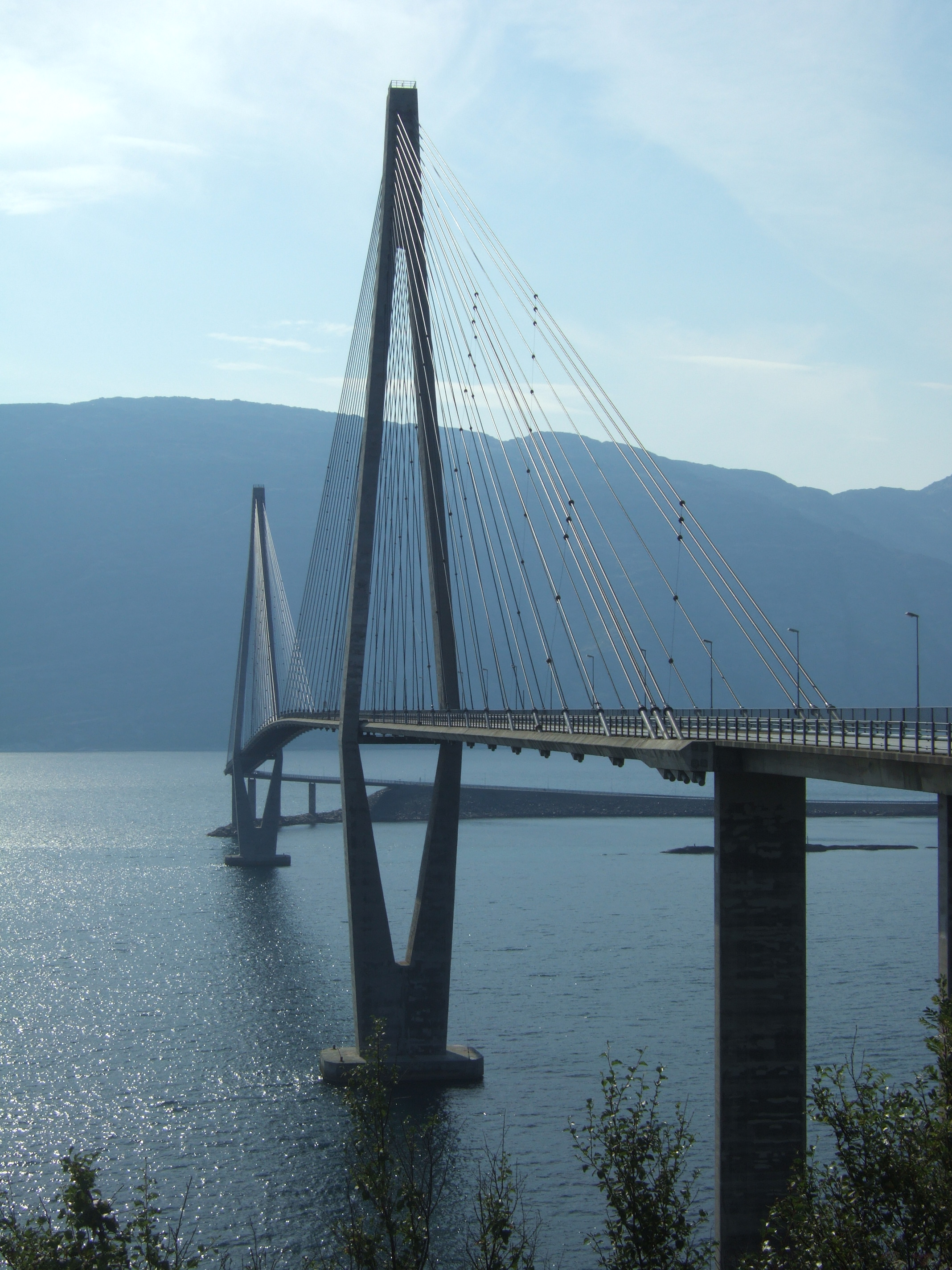 helgelandsbrua, photo taken from north east.